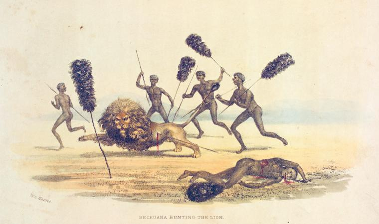 Bechuana hunting the lion